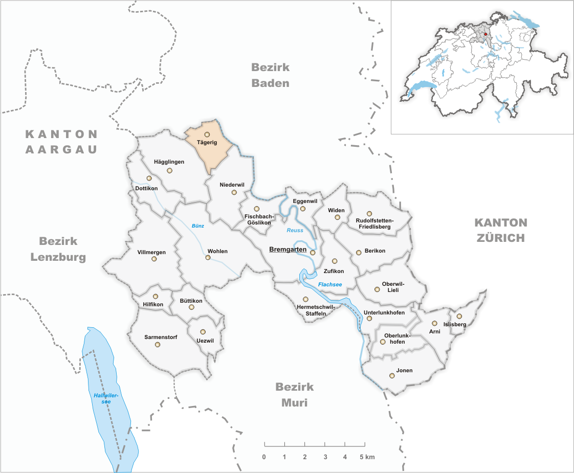 Municipality Tägerig